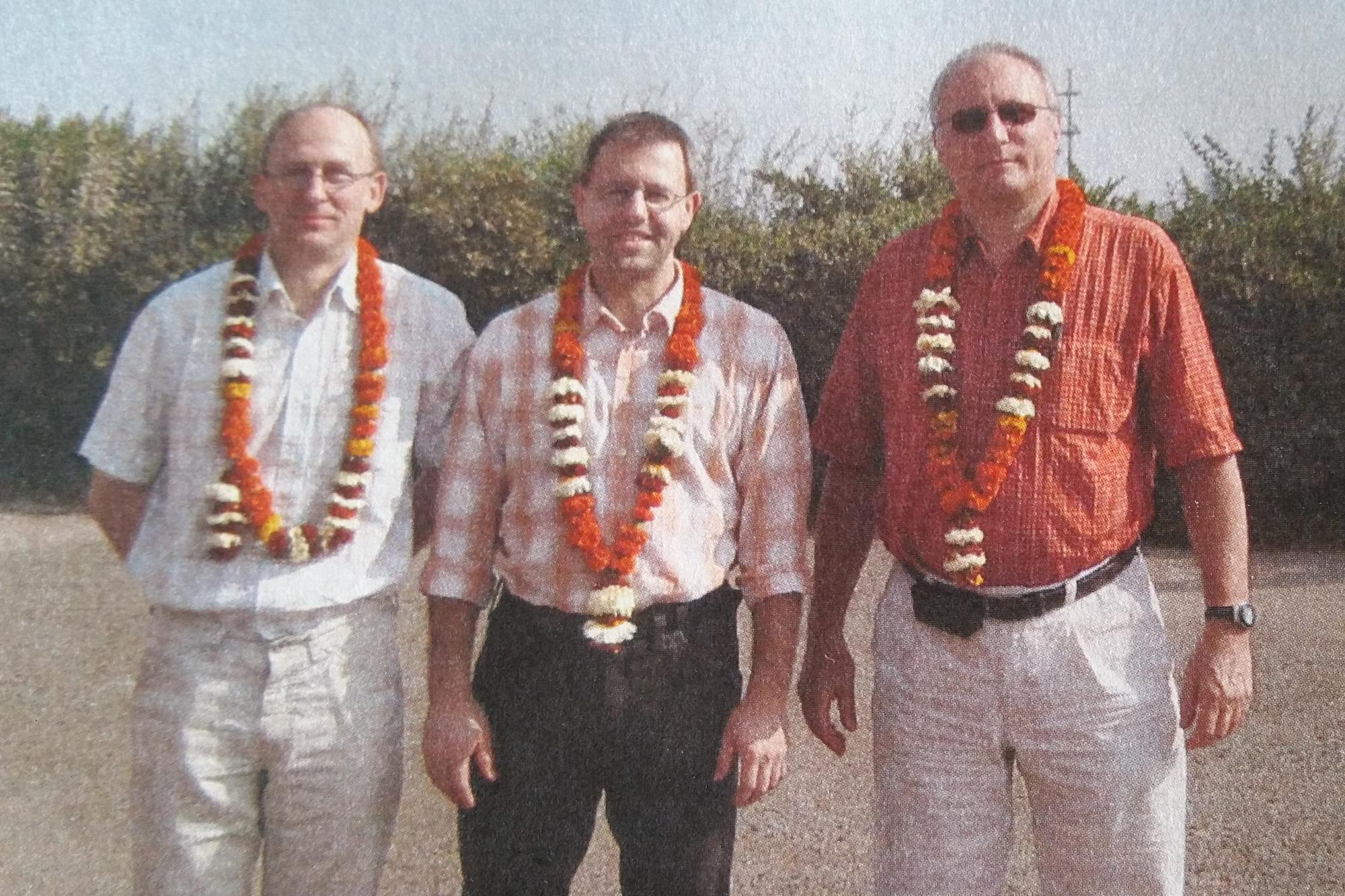 J. Gluza, S. Moch and T. Riemann on the way at NH2 to the RECAPP school 2009 at HRI, Allahabad, India